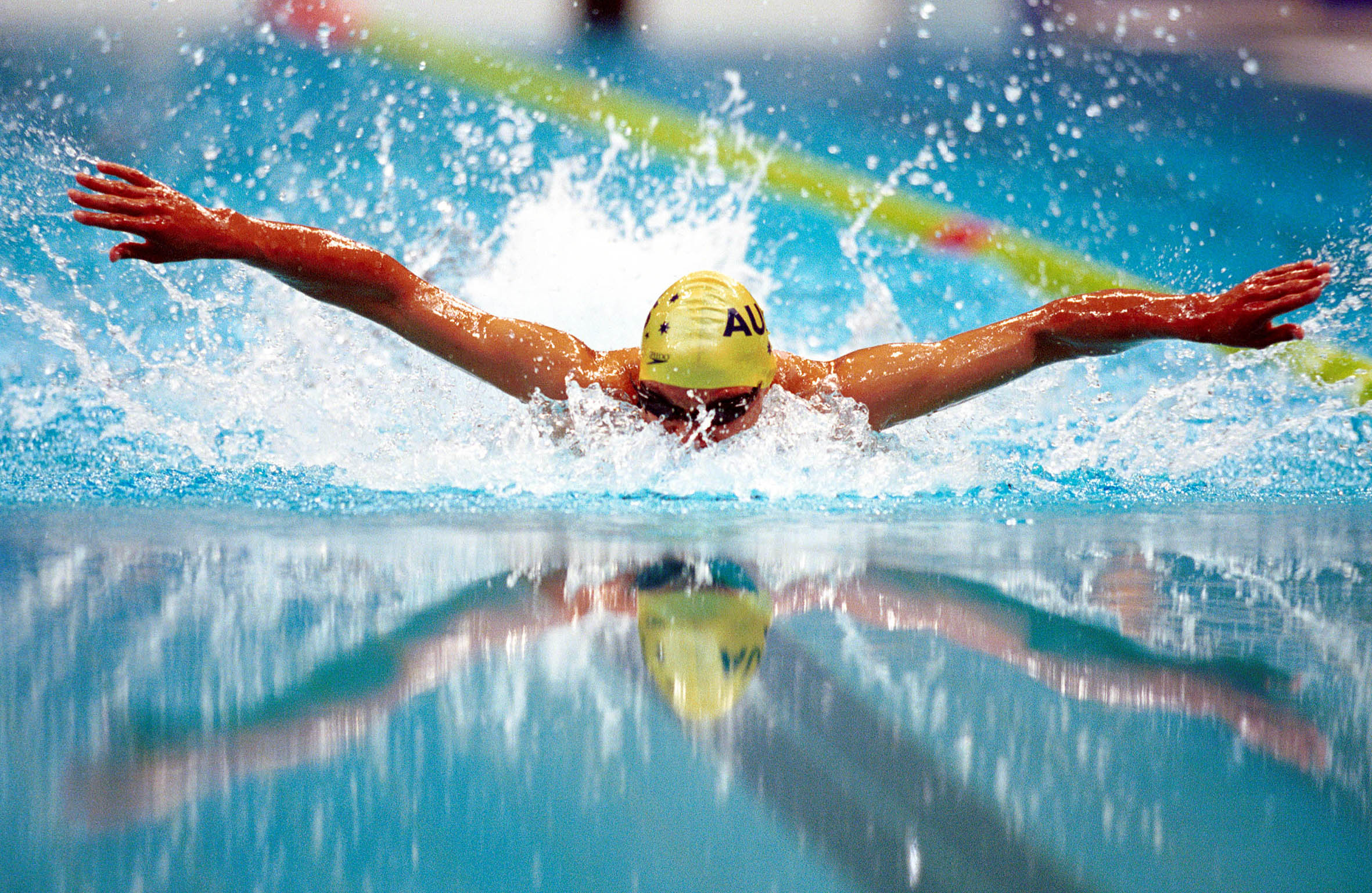 Photographic reflections of Australian swimmer Daniel Bell in action during Day 03 of the 2000 Sydney Paralympic Games